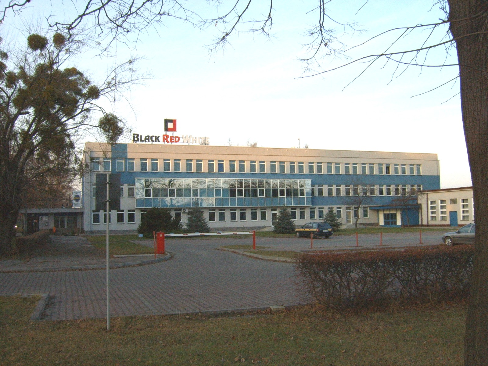 Furniture factory "Black Red White" in Zamość, Poland